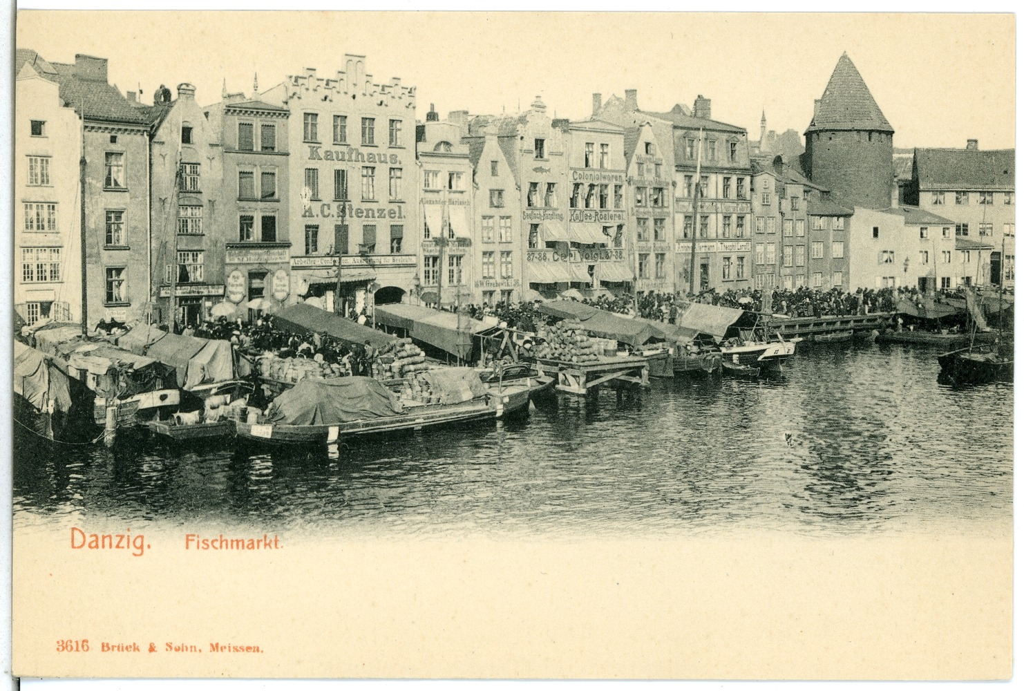 This postcard is from publisher Brück & Sohn in Meißen ( This postcard has a unique number 03616 and is available in a higher resolution at the publisher. This images was uploaded in a cooperation project between Wikipedians and the publisher.